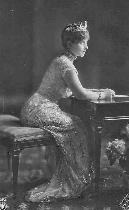 Charlotte, Duchess of Saxe-Meiningen